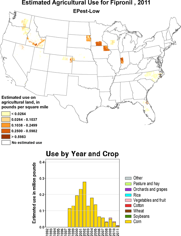 Fipronil map of use, USA, 2011 (estimated)